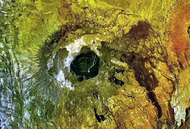 The central caldera of Suswa, the southernmost caldera of the Kenya rift, contains an unusual 5-km-wide circular graben that isolates a tilted island block of caldera-floor lava flows. Construction of an early shield volcano was followed by eruption of voluminous pumice flows and lava flows that accompanied formation of the caldera. The latest eruptions of Suswa have originated from parasitic vents that have issued still-unvegetated lava flows that may be only a century or so old. North is to the top in this NASA Landsat image.